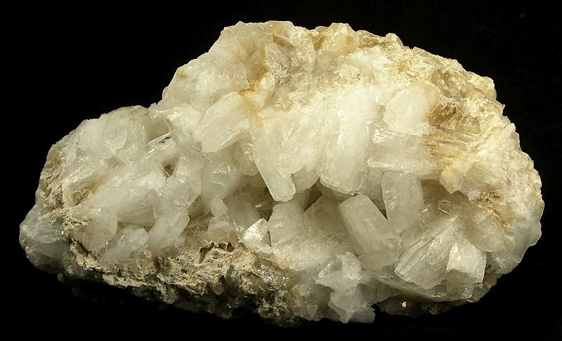 Inderborite Locality: Deposit No. 6, Inder B deposit and salt dome, Atyrau (Gur'yev), Atyrau Oblysy (Atyrau Oblast'), Kazakhstan (Locality at ) Size: 11.4 x 6.6 x 6.6 cm. This is a museum-sized specimen of this rare borate, featuring thick, blocky, and really large crystals in the display face pocket.